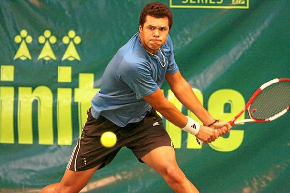 Jo Wilfried Tsonga Vainqueur 2006